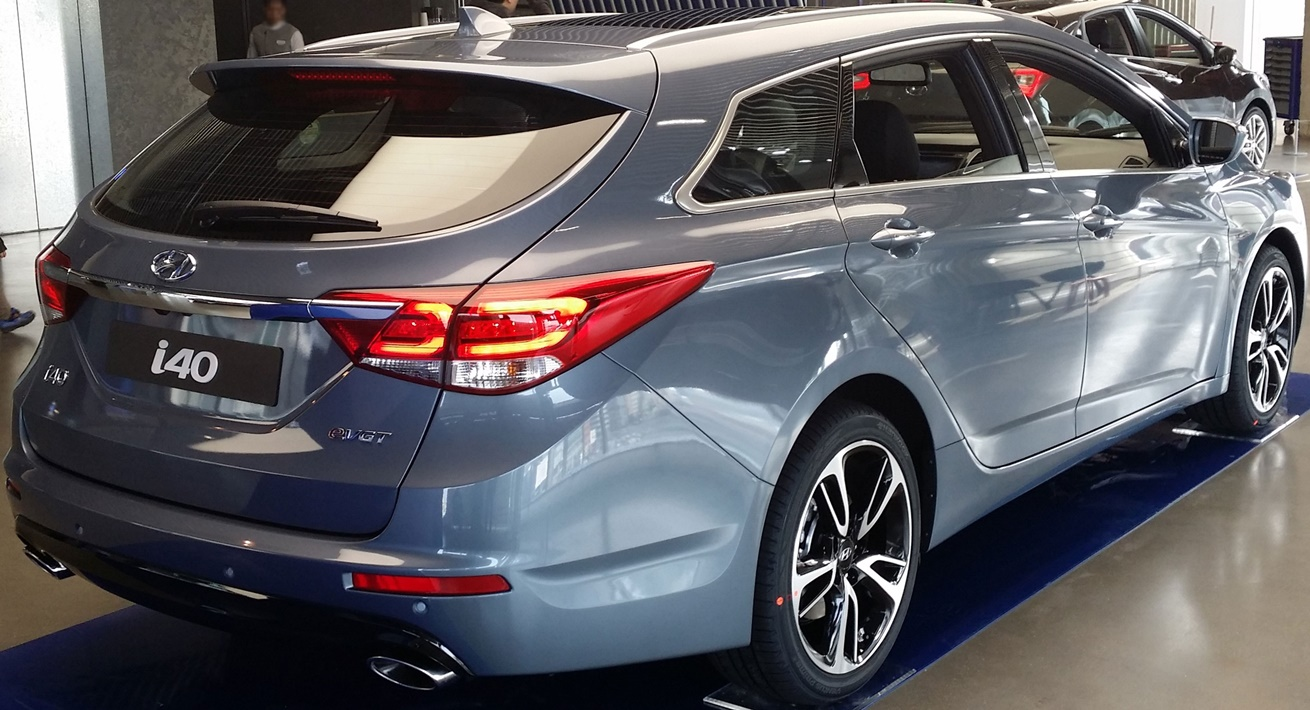 Hyundai The New i40